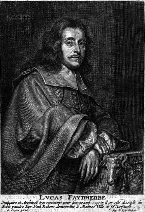 Portrait of Lucas Faydherbe in Cornelis de Bie's Gulden Cabinet.